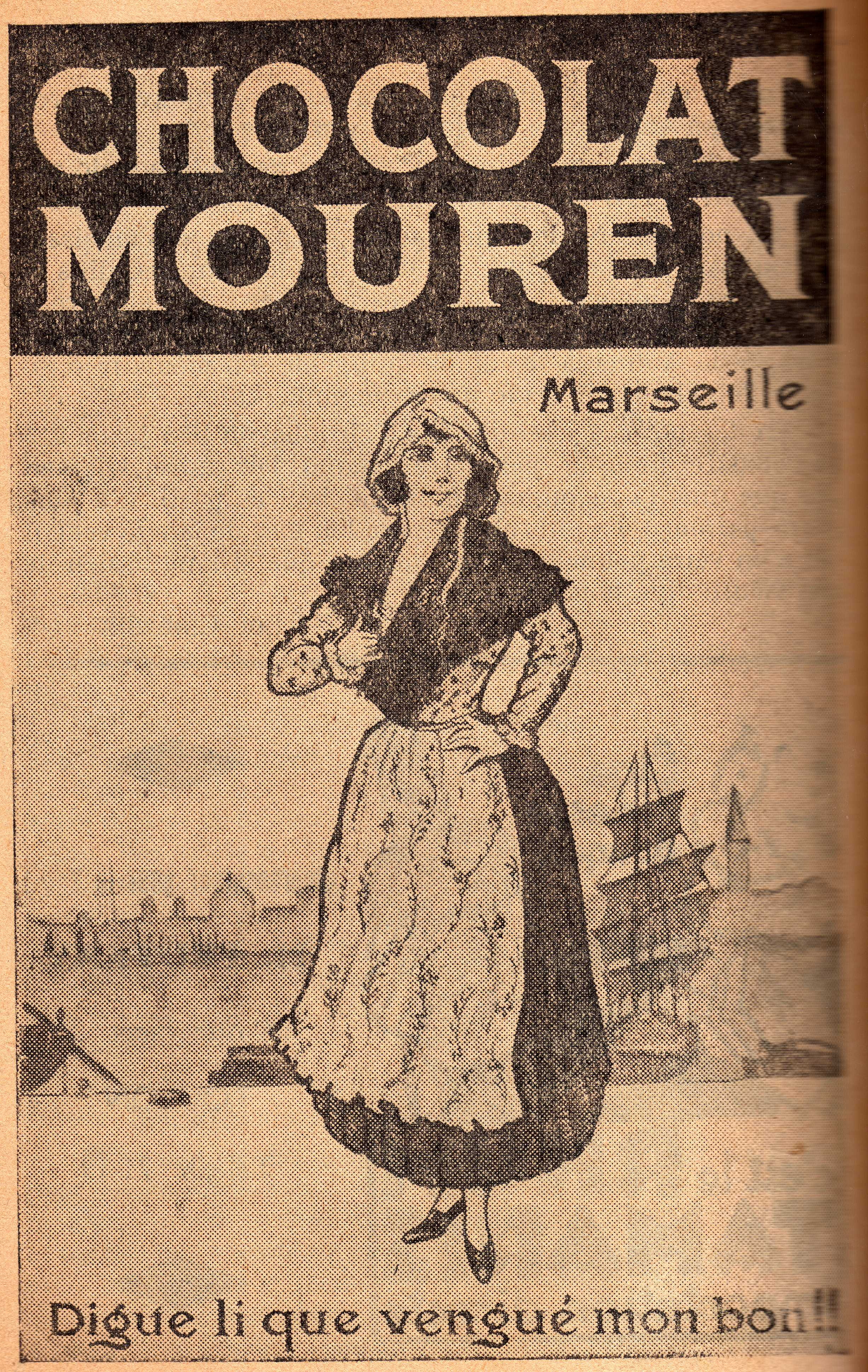 Ad in Occitan about chocolate